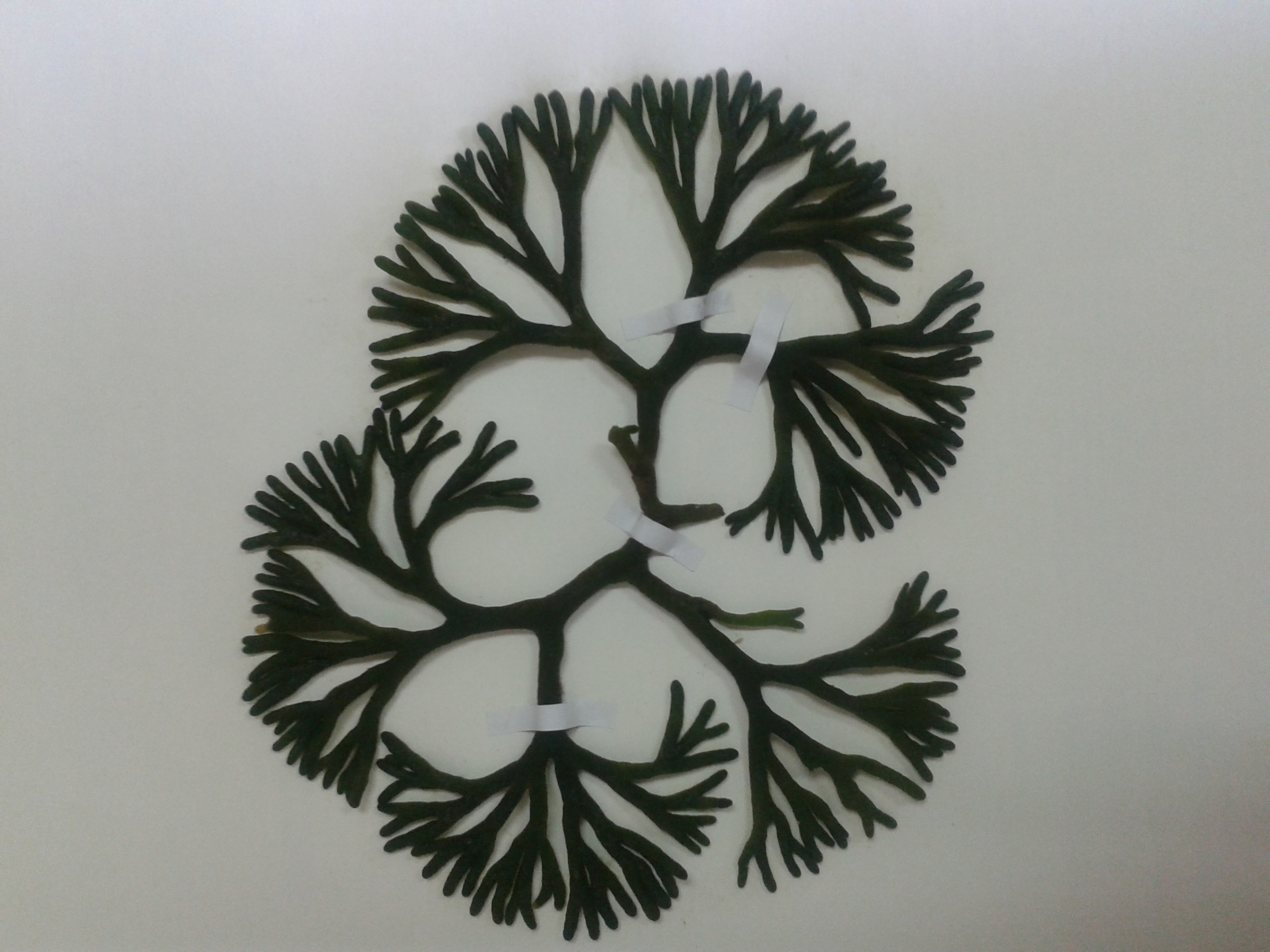 Codium vermilara (Olivi) Delle Chiaje а rare species, listed in the Red Book of Ukraine. Found a new location by Berezovska and Sadogyrska.